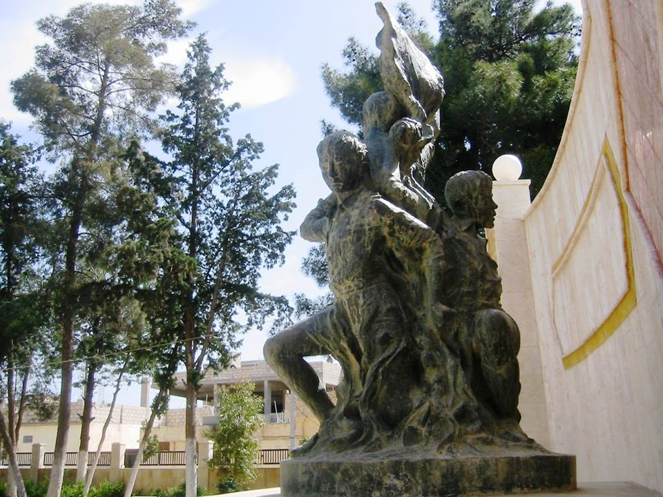 Amoudah cinema statute in Amoudah city, Syria